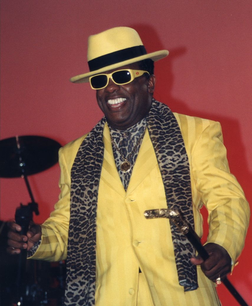 Isley in 1996, Washington DC